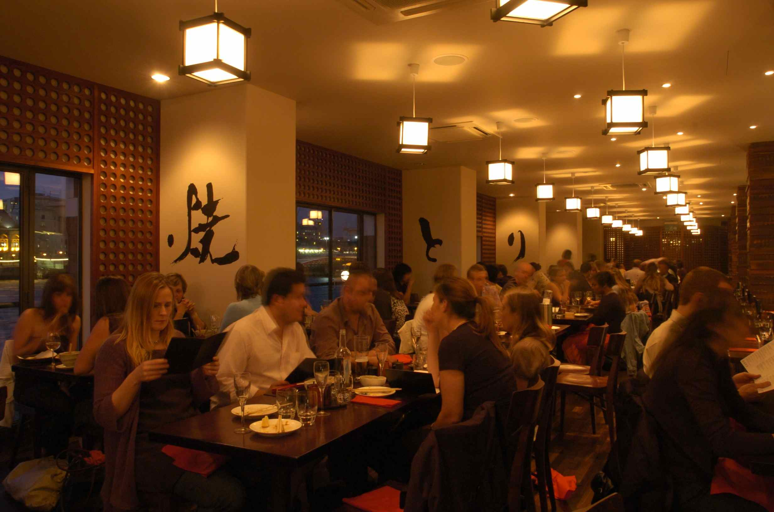 Bincho OXO